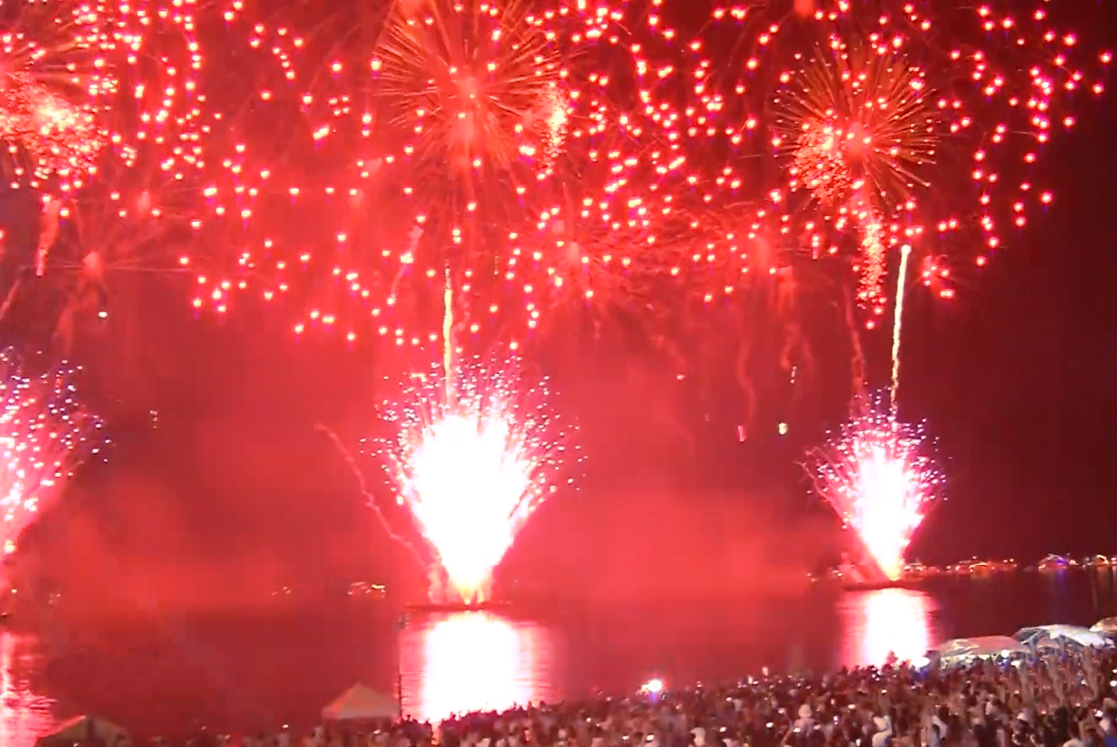 New Year's Eve at Ponta Negra Beach in Manaus, capital of Amazonas State, Brazil.